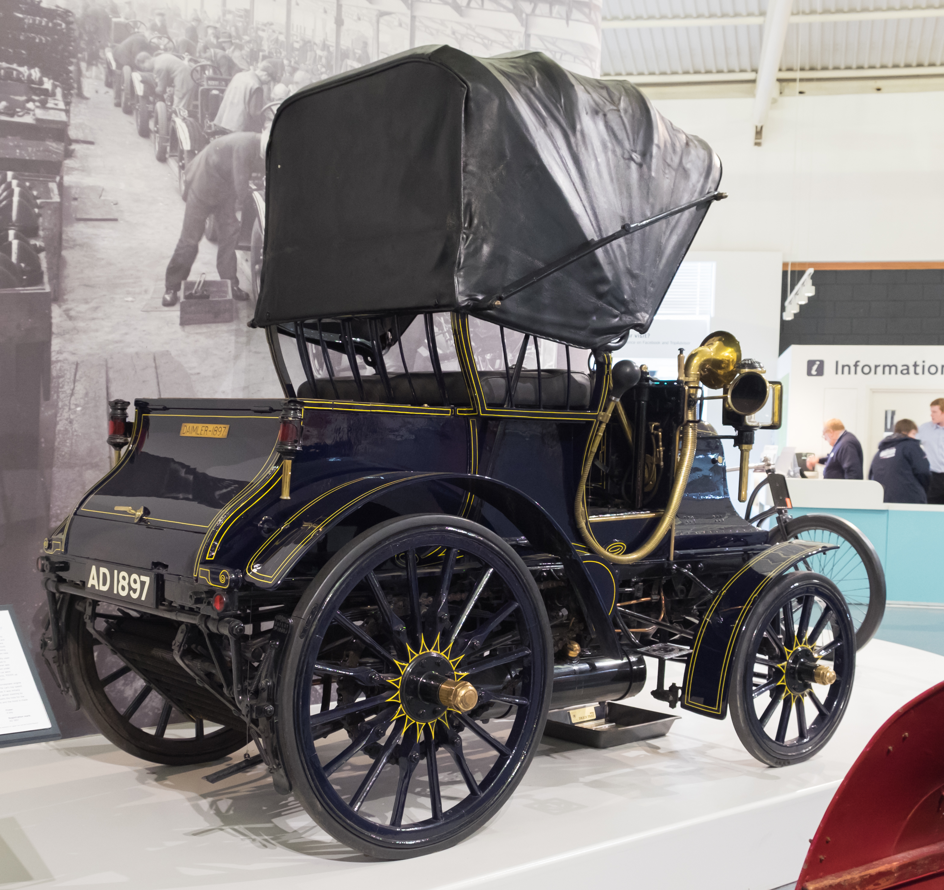 An 1897 Daimler Grafton Phaeton. This car, with registration mark AD 1897, is now kept at the British Motor Museum, Gaydon, UK.